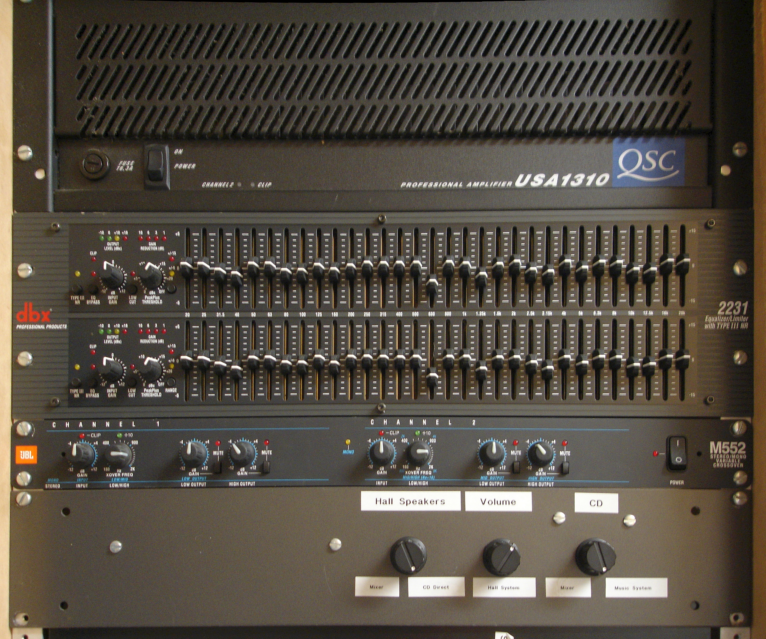 Installed sound system rack QSC USA1310 Professional Amplifiers dbx 2231 Equalizer/Limiter with TYPE III NR JBL M552 Stereo/Mono Variable Crossover Selector